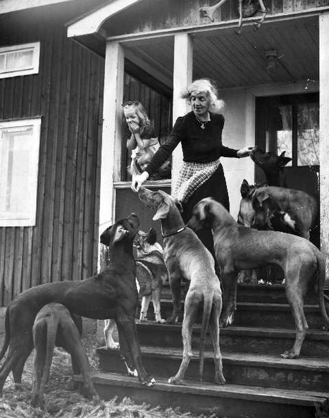 Sigge Stark at Mannikhöjden with her dogs.